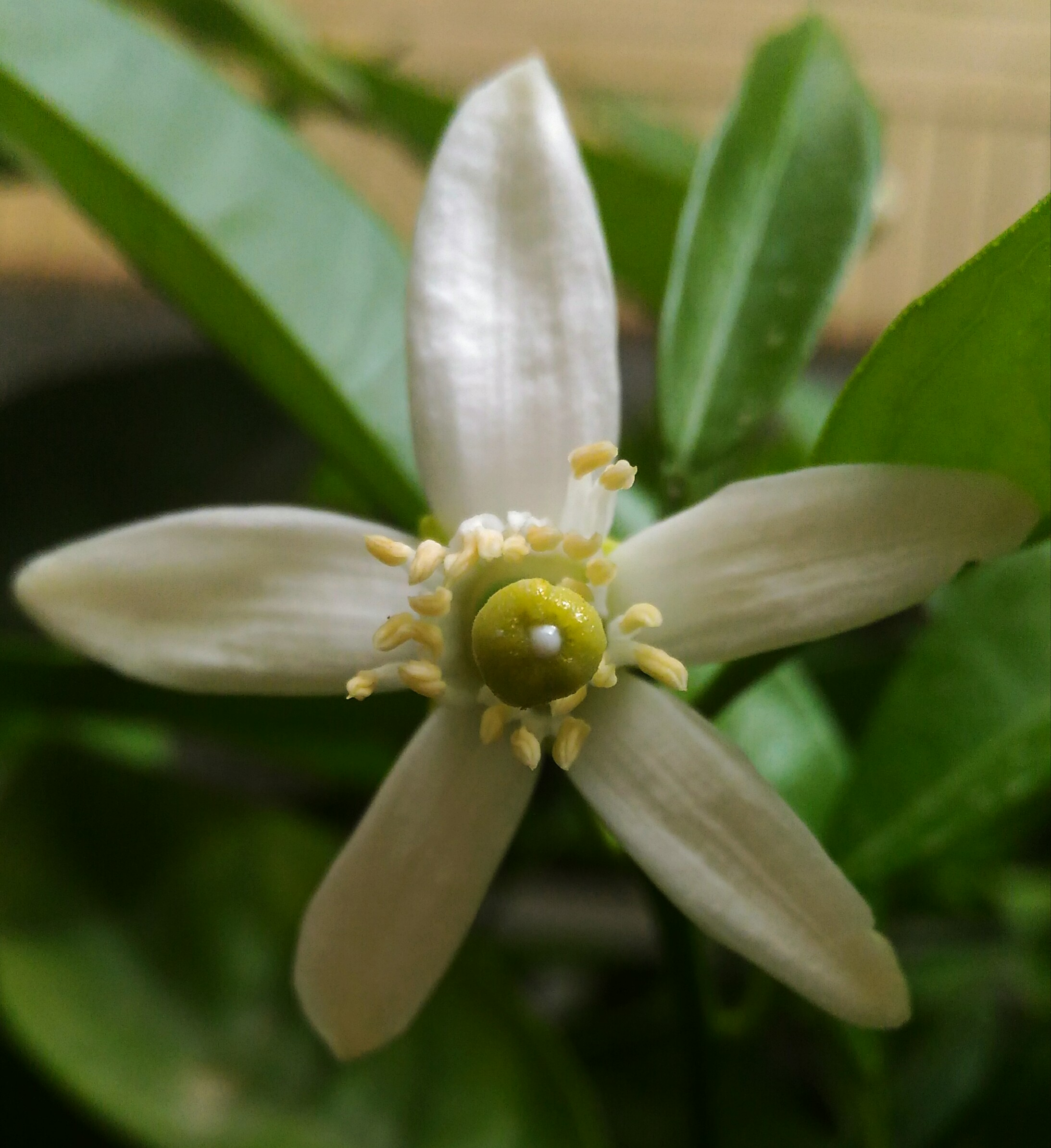 Orange blossom Flower - Iran